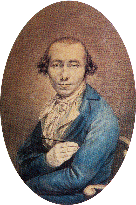 Self-portrait of the painter and art master Jacob Fehrmann (1760–1837) from Bremen, Germany.